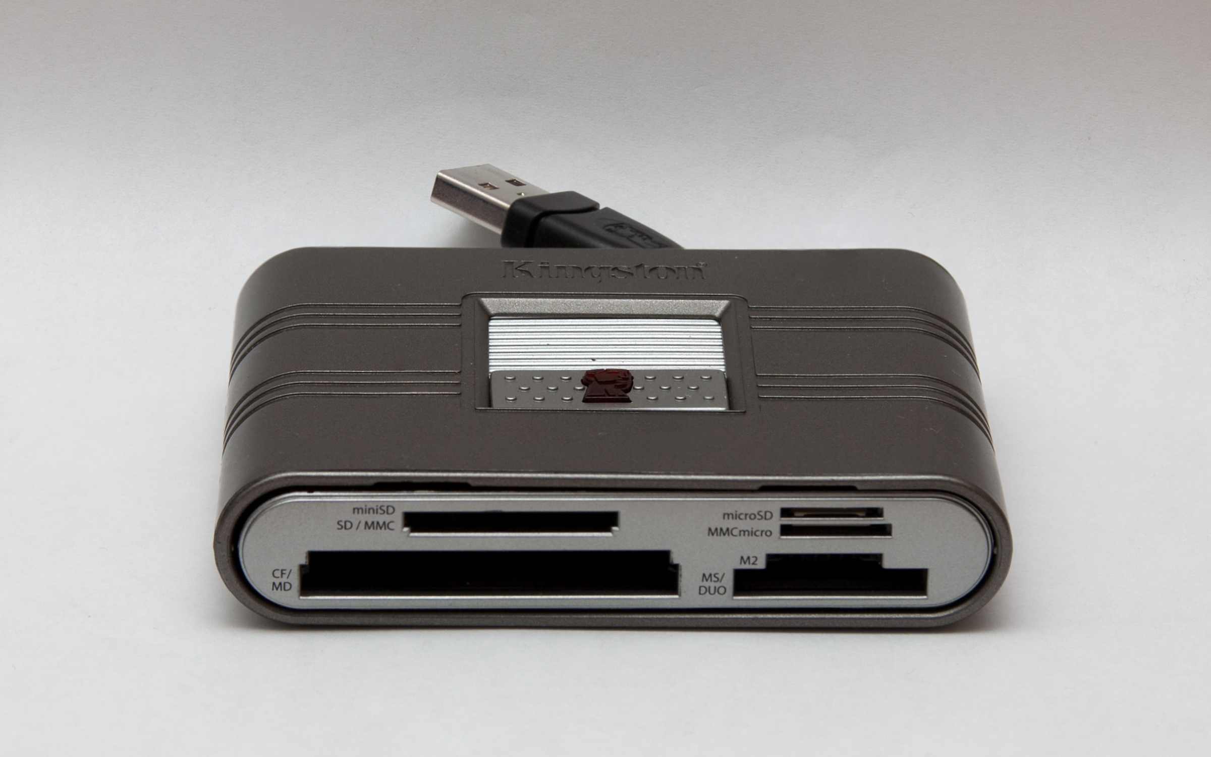 Kingston FCR-HS219/1 19-in-1 USB 2.0 Flash memory card reader. Focus-stacked 3 images.